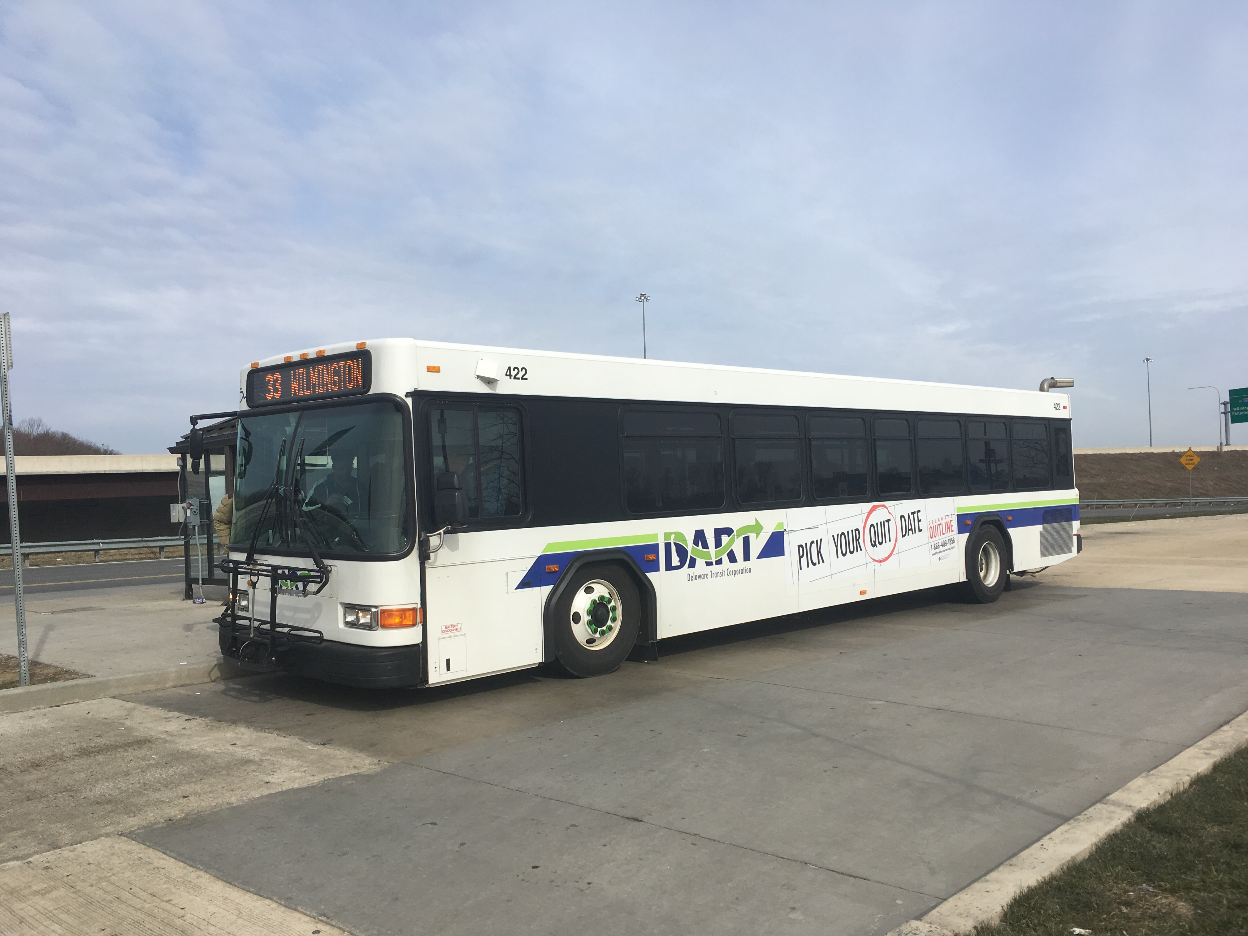 DART First State Gillig Advantage bus #422 on the Route 33 line at the Christiana Mall Park & Ride in Christiana, Delaware